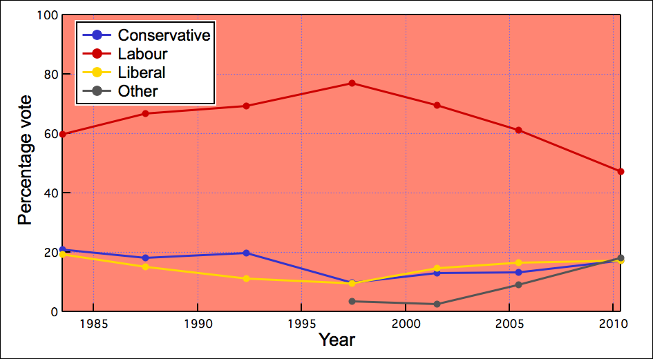 United Kingdom general election results for Barnsley Central constituency from its creation in 1983 to the present. © Jeremy Atherton 2005.